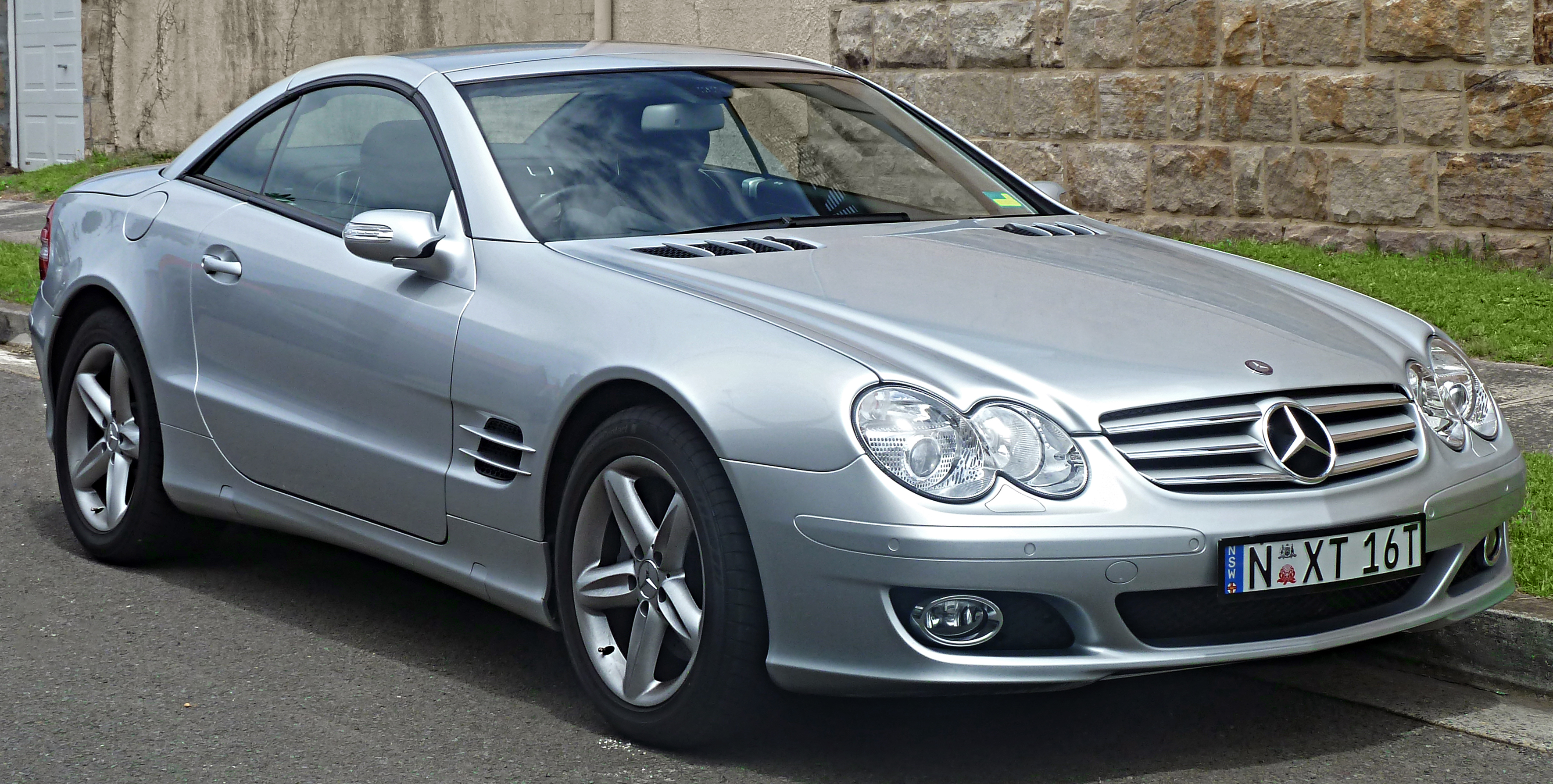 2006–2008 Mercedes-Benz SL 350 (R 230) roadster. Photographed in Dover Heights, New South Wales, Australia.